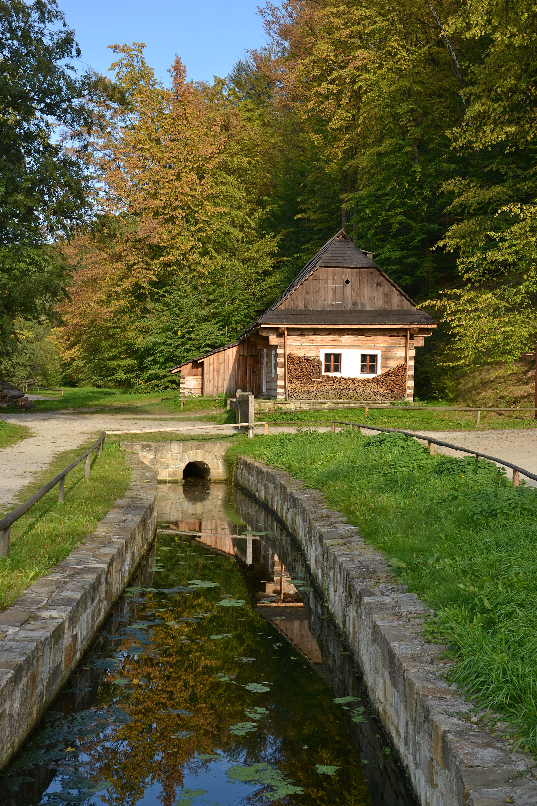 Wallachian Open Air Museum, Czech Republic - Wallachian village